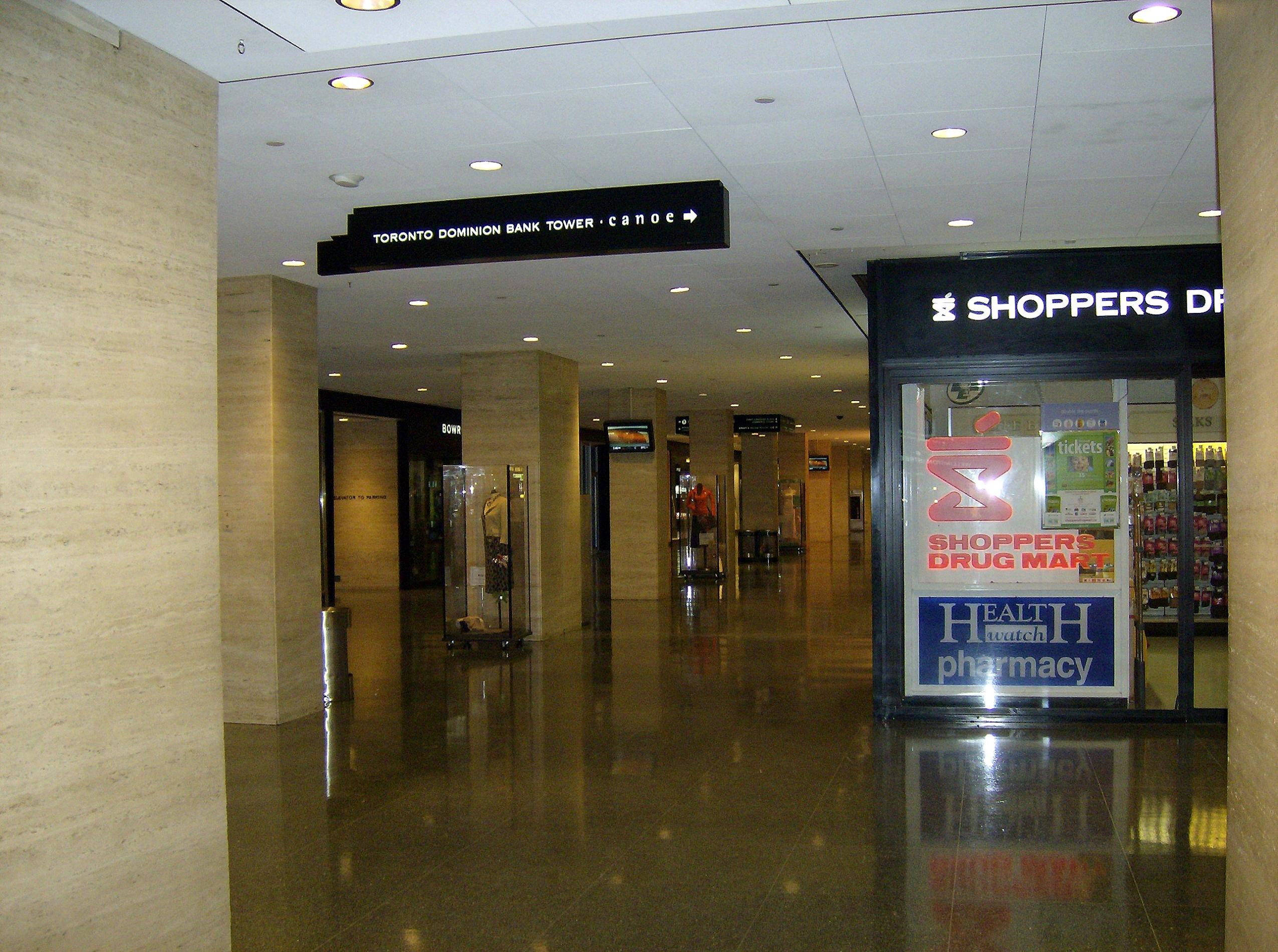 self made